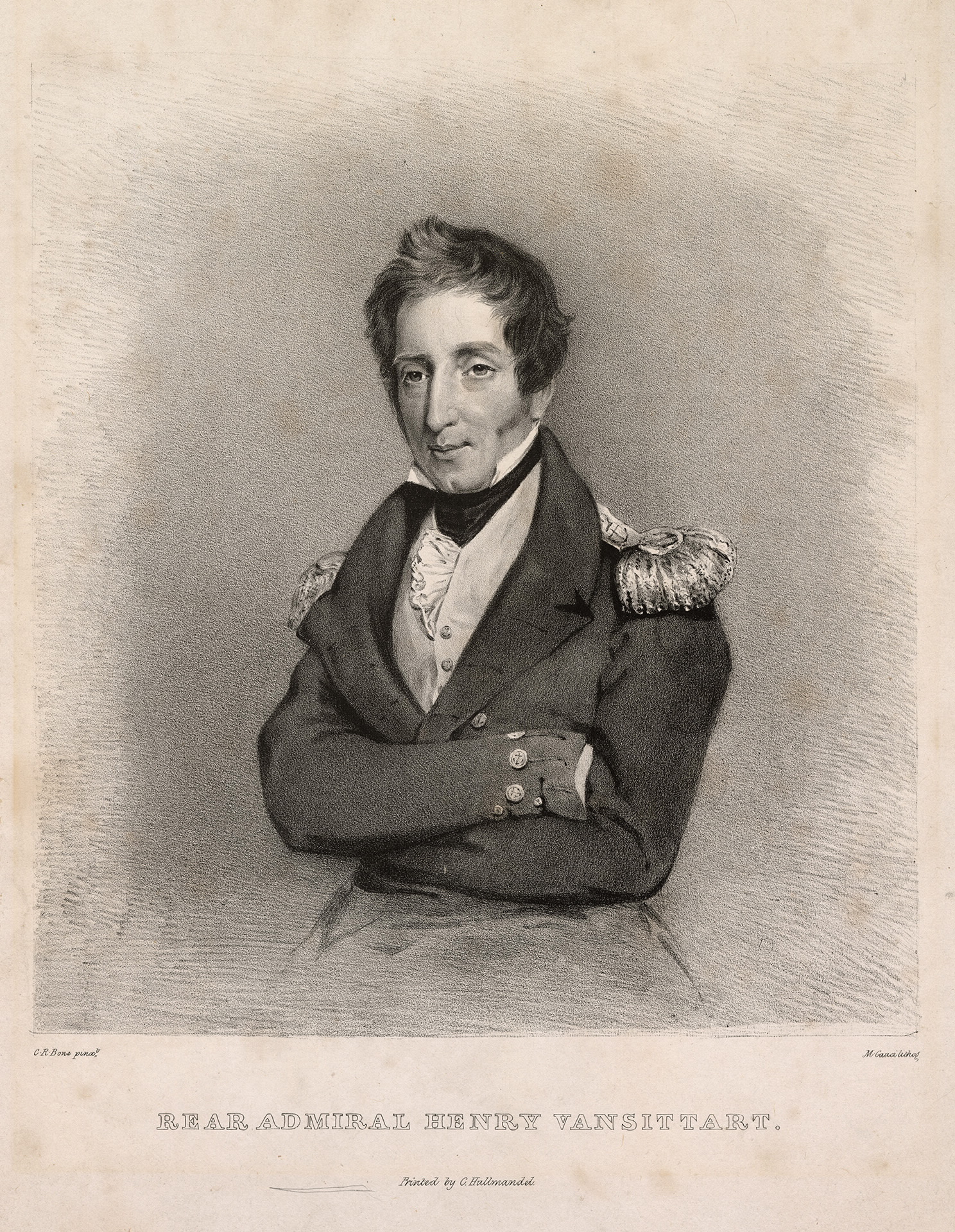 Rear-Admiral Henry Vansittart